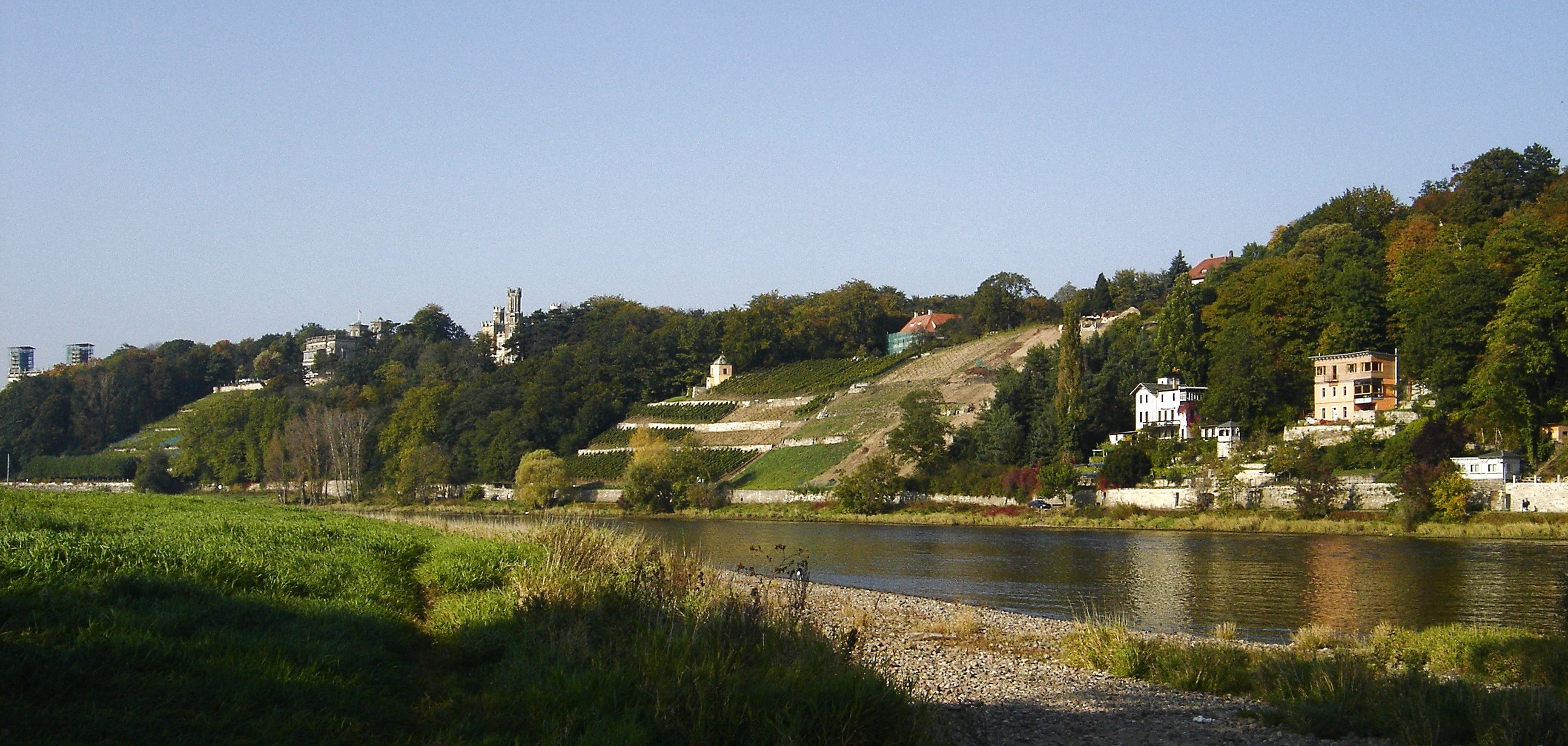 Elbe slope in Dresden near the three so called elbe castles about 3 kilometres upstream the cities central districts. The picture also shows the riparian of the river in one of its urban areas.